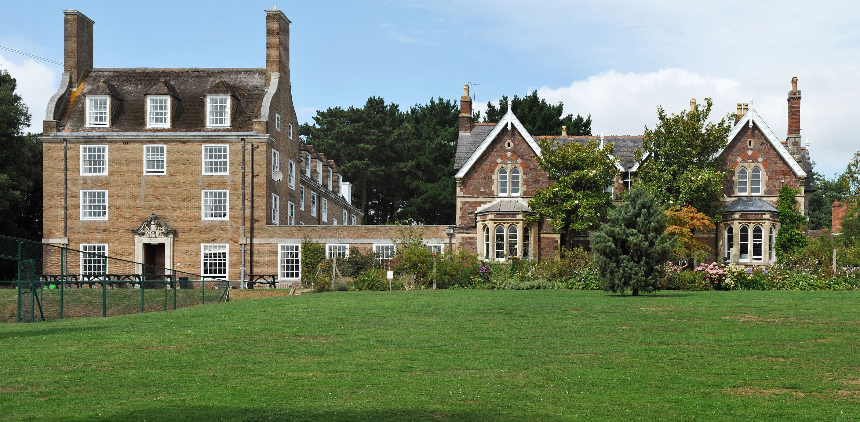 Lopes Hall, one of the student halls of residence at the University of Exeter, Devon, England.